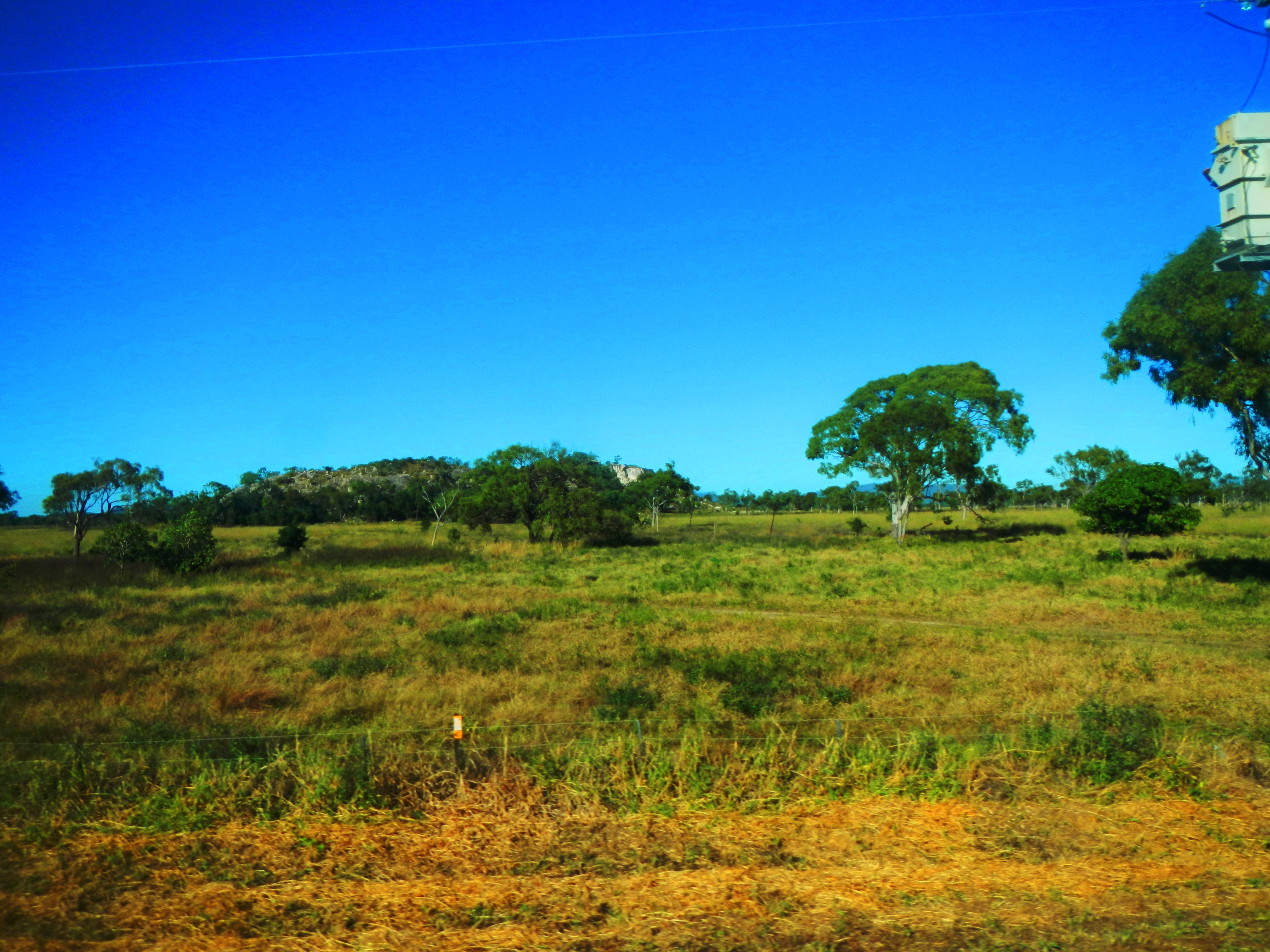 View from the Sunlander